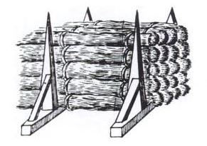 Two chandeliers (wooden frames) holding a pile of fascines (wooden bundles). Note that the image is cut off on the left, where typically a third chandelier would be resting.